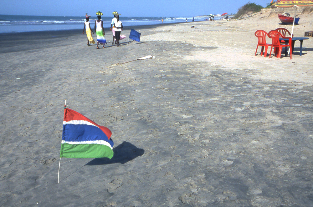 Atlantic Ocean beach in Kololi, The Gambia. Photograph by Henryk Kotowski.